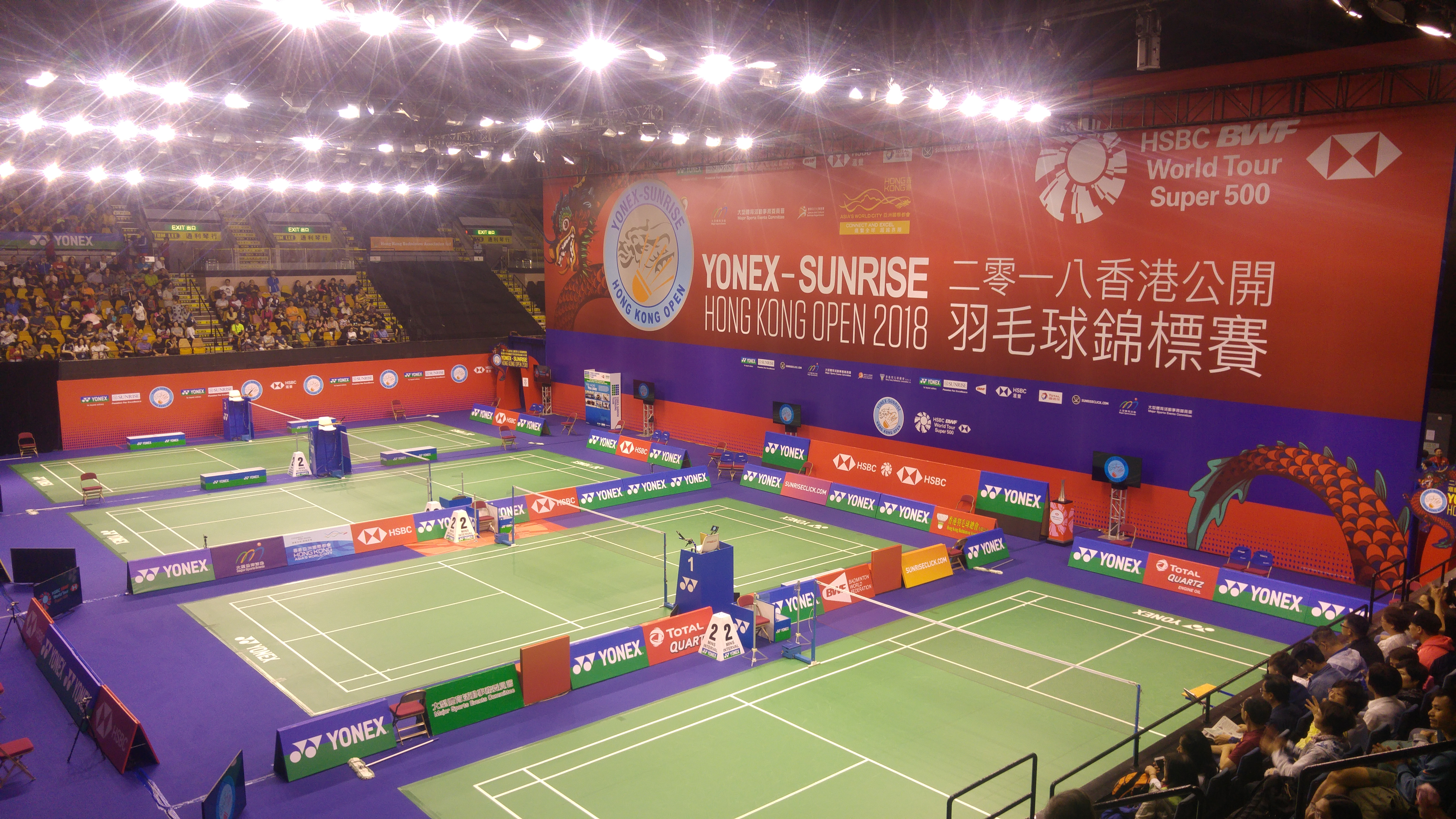 Hong Kong Open Badminton Championships 2017 - The courts and setting in Hong Kong Coliseum